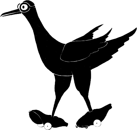 Insignia of the U.S. Navy Fighting Squadron 42 (VF-42) emblem adopted prior to the Second World War. , VF-42 served on board the aircraft carrier USS Yorktown (CV-5) in 1941-42.